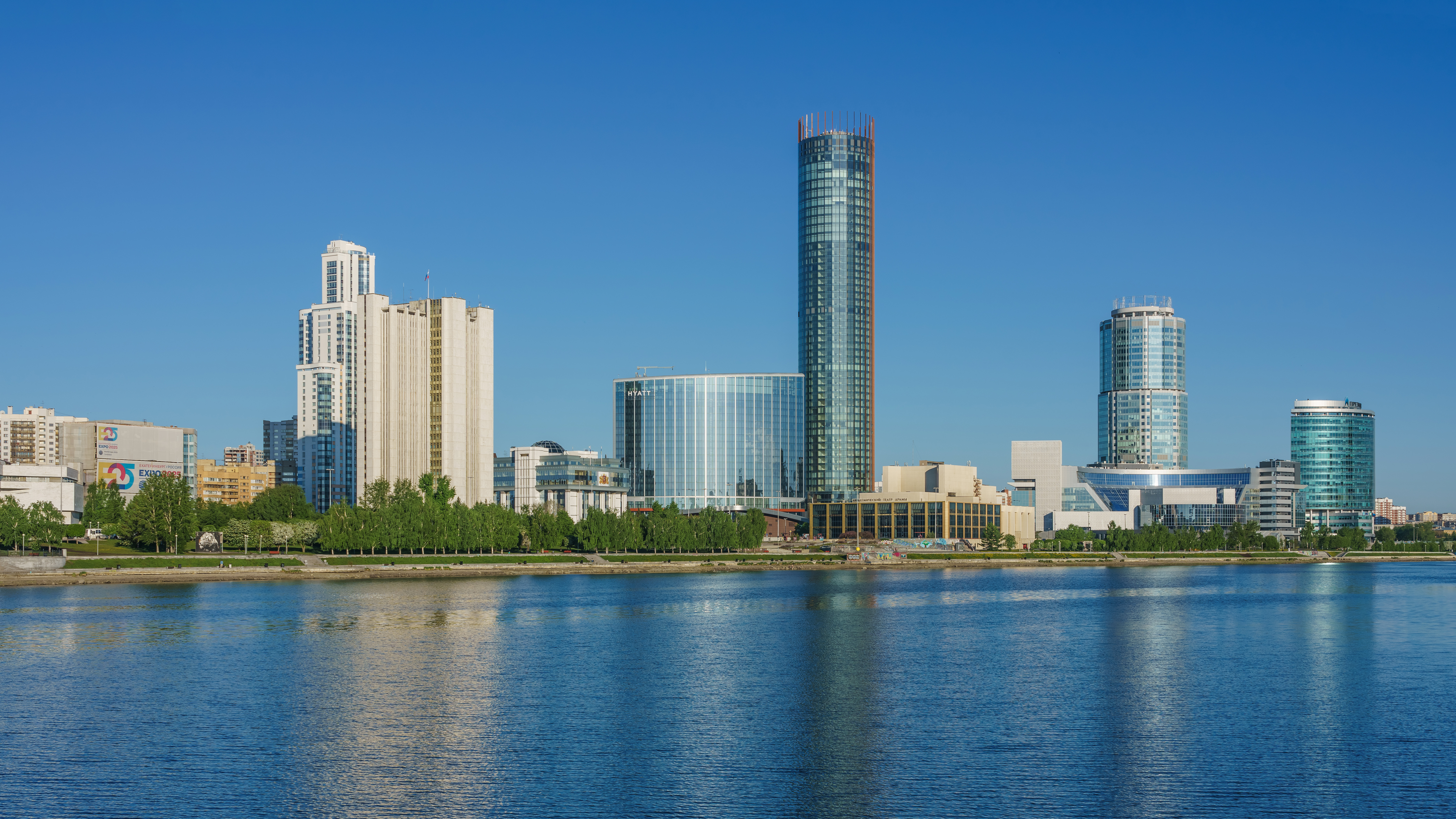 Skyline at the City Pond in Ekaterinburg, Russia